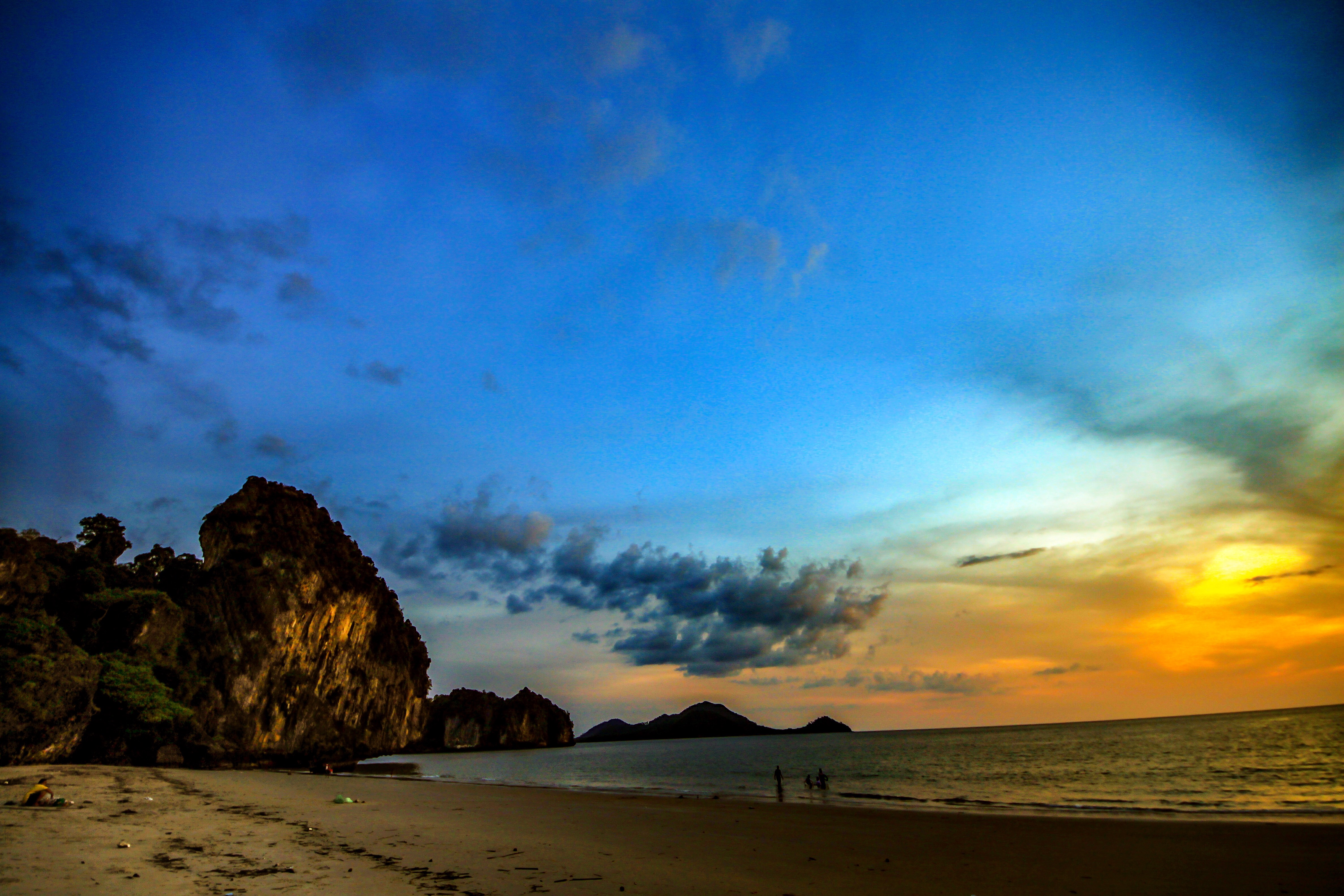 อุทยานแห่งชาติหาดเจ้าไหม